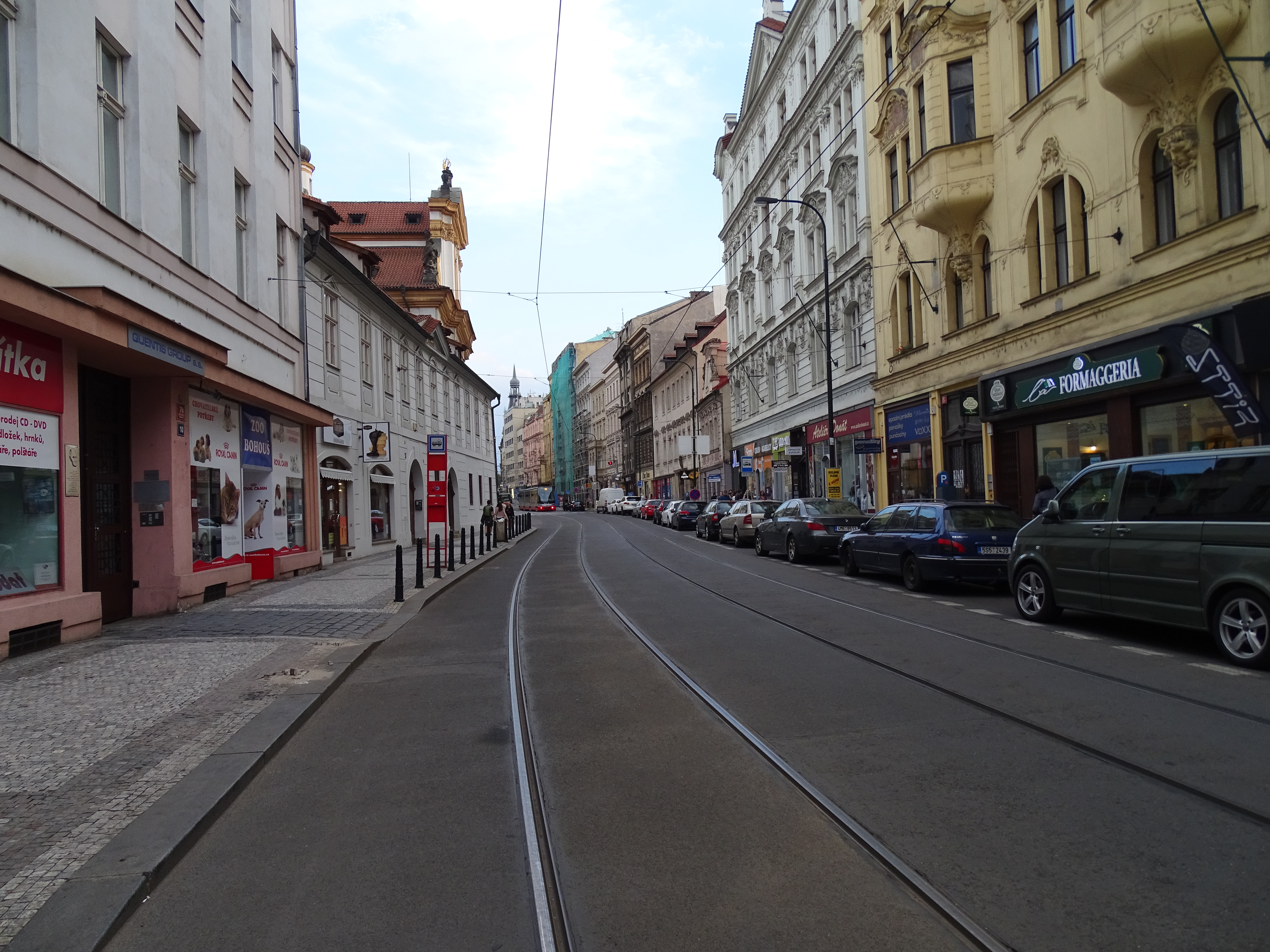 Prague-New Town, Czech Republic. Spálená street, tram stop Lazarská.